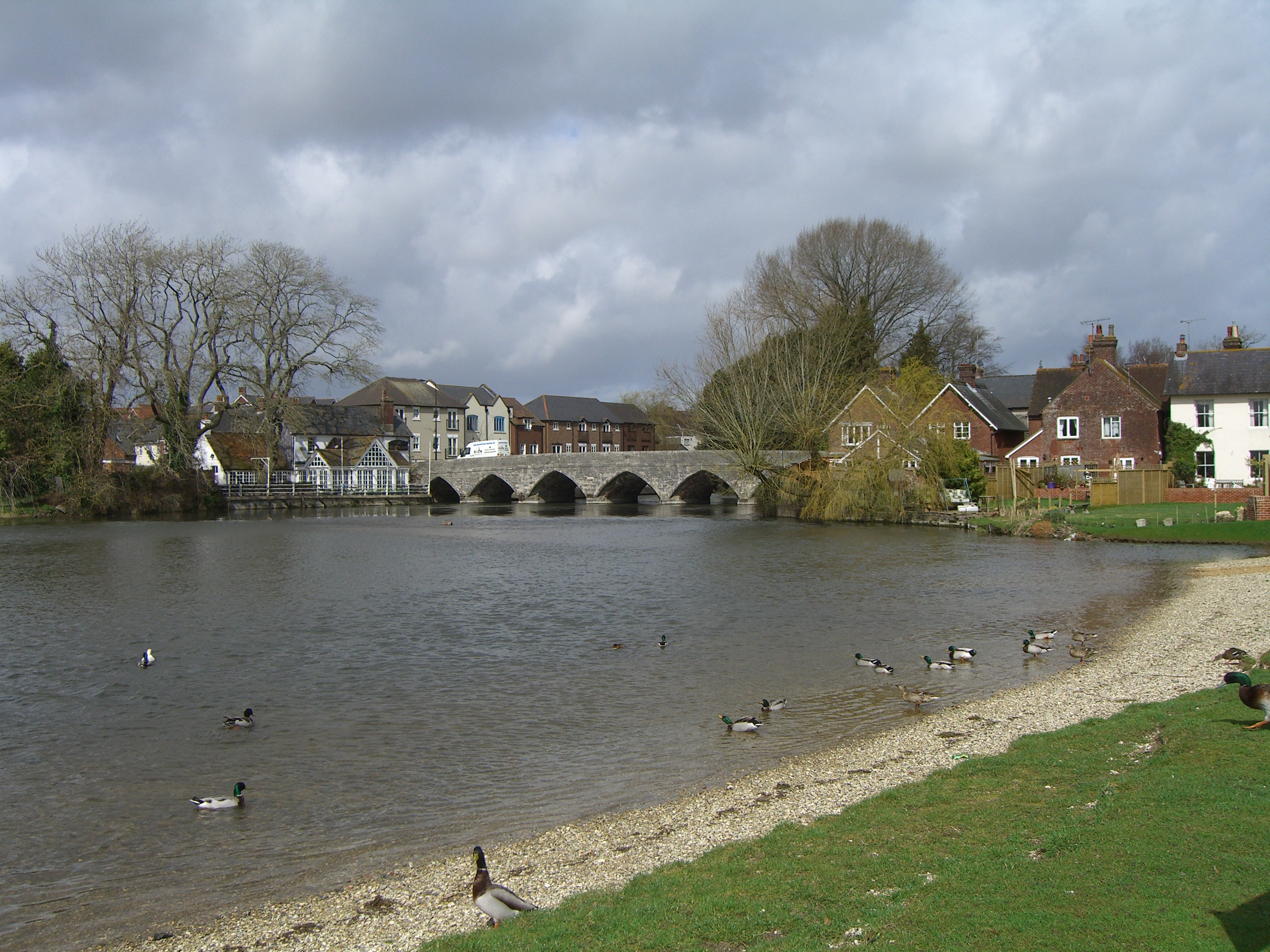 The River Avon and bridge at Fordingbridge, Hampshire, UK